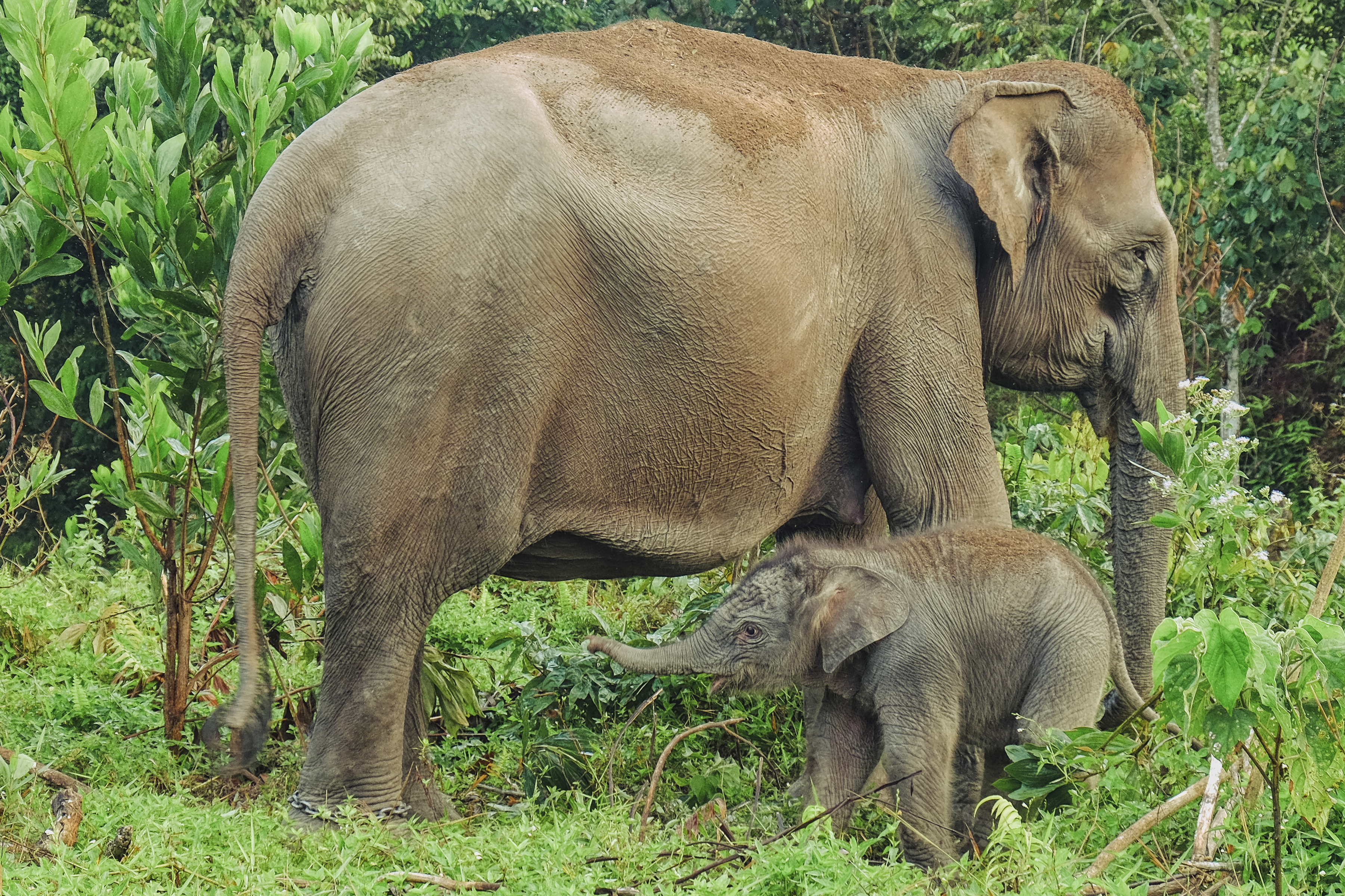 A newly born endangered baby Sumatran elephant (elephas maximus sumatranus) plays with her mother in Tesso Nilo National Park, Pelalawan Regency, Riau Province, on November 23, 2017. The elephant baby is named Harmoni Rimbo, which is the result of a marriage between a wild elephant and a tame female elephant named Elephant Flying Squad, at the Tesso Nilo National Park.